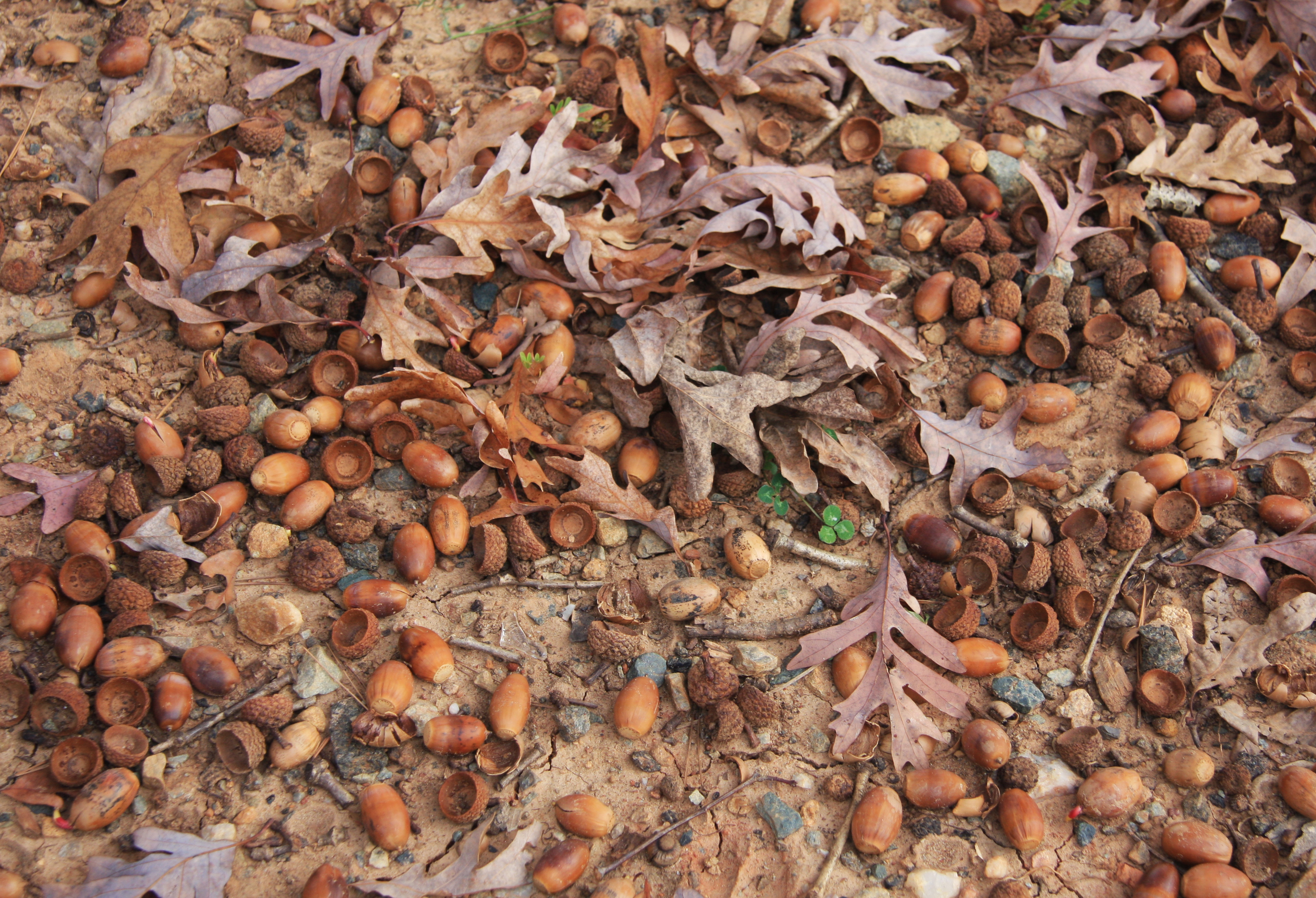 White oak (Quercus alba) acorns - one prolific tree can nearly cover the ground in a good year. Duke Forest Korstian Division, Durham North Carolina.